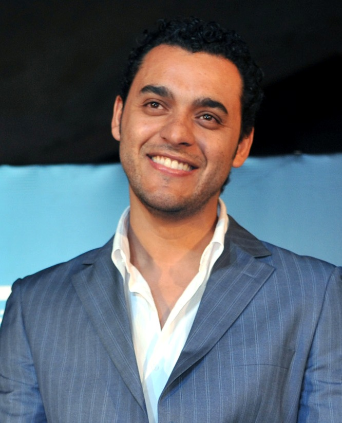 Actor Rui Ricardo Dias at the premiere of his film Lula, o filho do Brasil during the Brasília Film Festival in November 17, 2009.